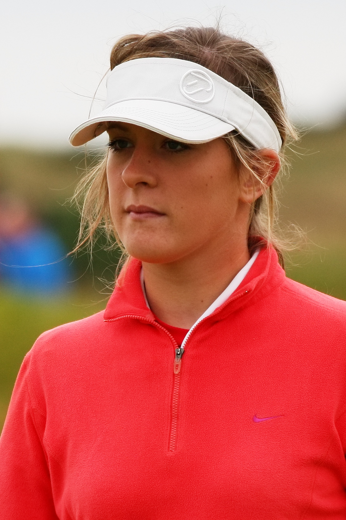 CARNOUSTIE, SCOTLAND - JULY 27: Lauren Taylor of England on the 14th green during the final practice round of the 2011 Ricoh Women's British Open at Carnoustie on July 27, 2011 in Carnoustie, Scotland. (Photo by Wojciech Migda)